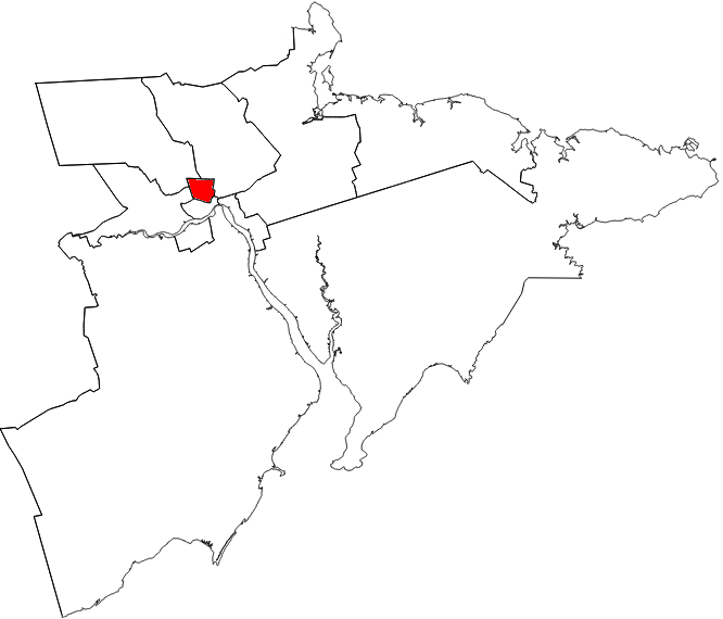 The riding of Moncton Centre in relation to other southeastern New Brunswick electoral districts